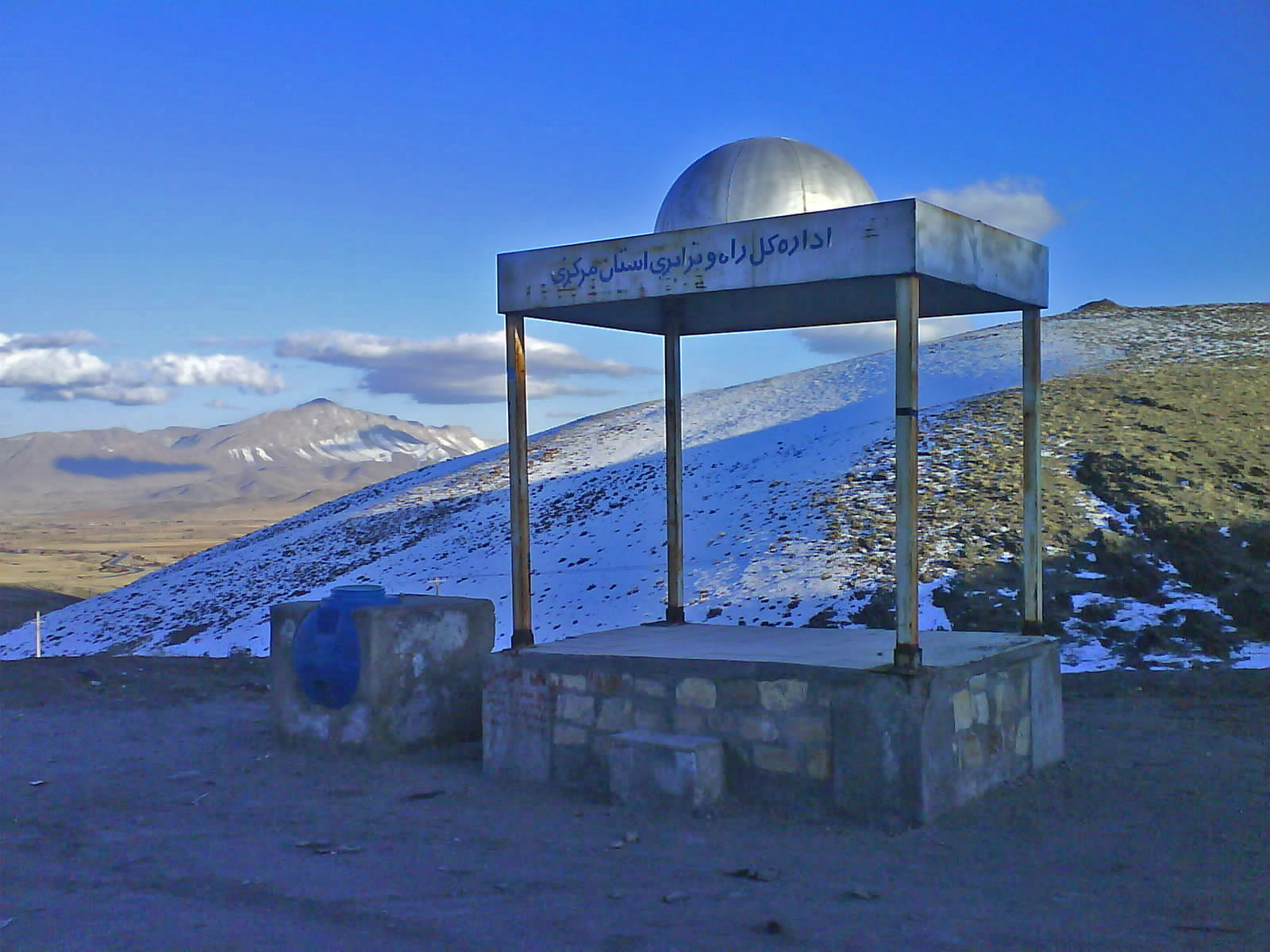 Roadside prayer ramp in Iran. This one is located in Arak - Borujerd Highway. Providing very basic facilities, these constructions are designed for those drivers and passengers who want to say their daily prayer while travelling.